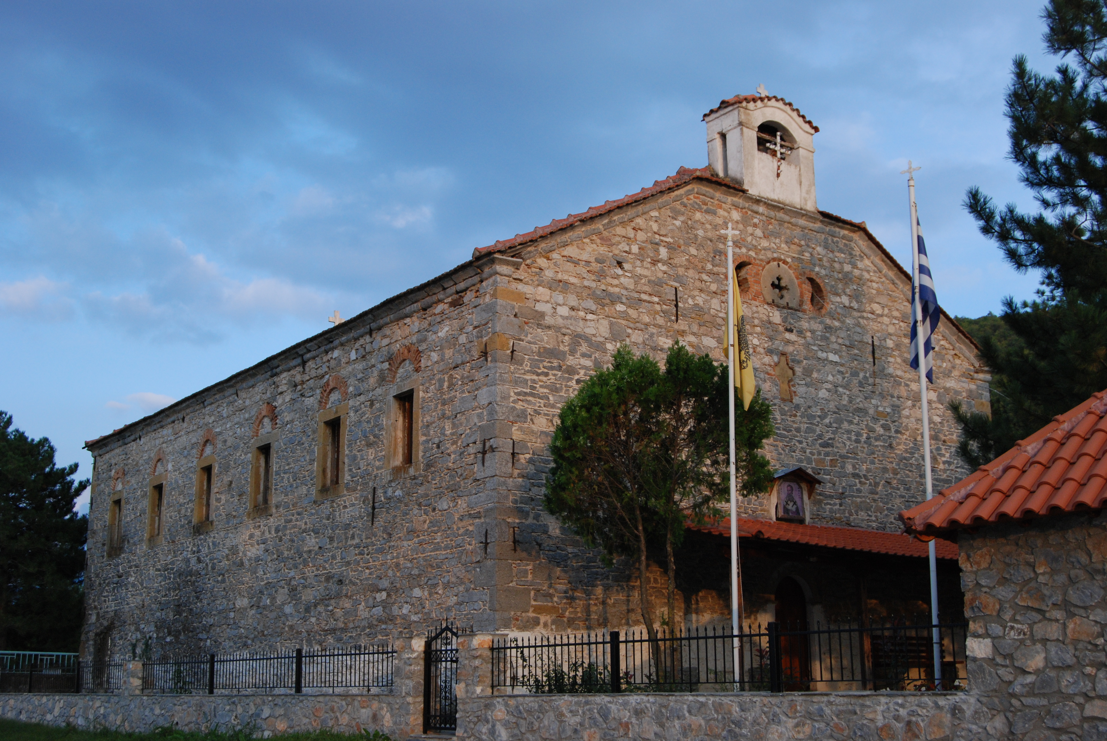 Church St.Atanasii in Mikrolimni/Langi, Greece